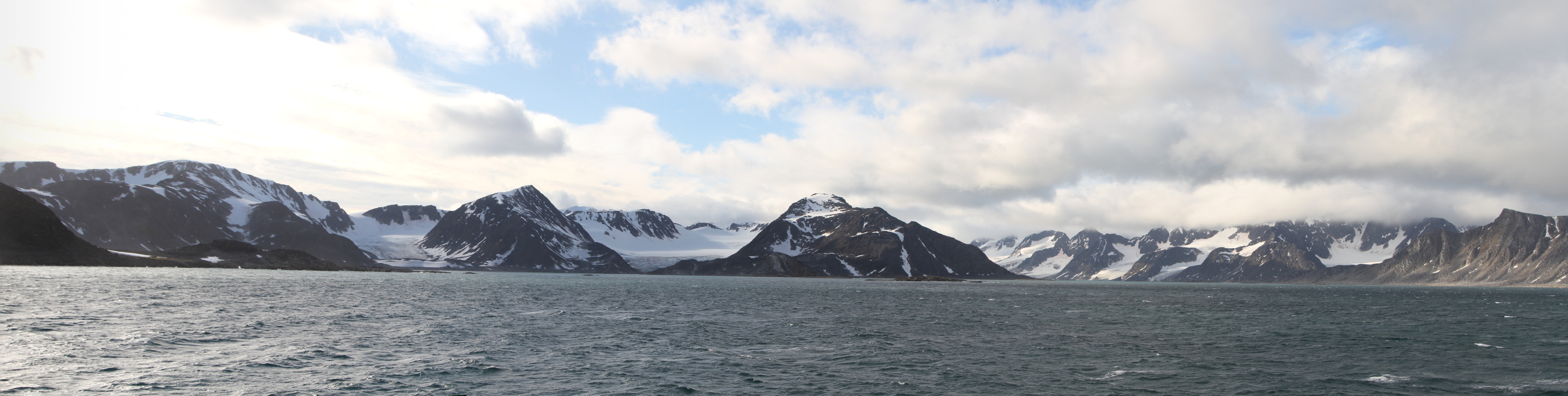 Panorama of Sallyhamna and Holmiabreen glacier in Albert I Land, Northwestern Spitsbergen - Norway